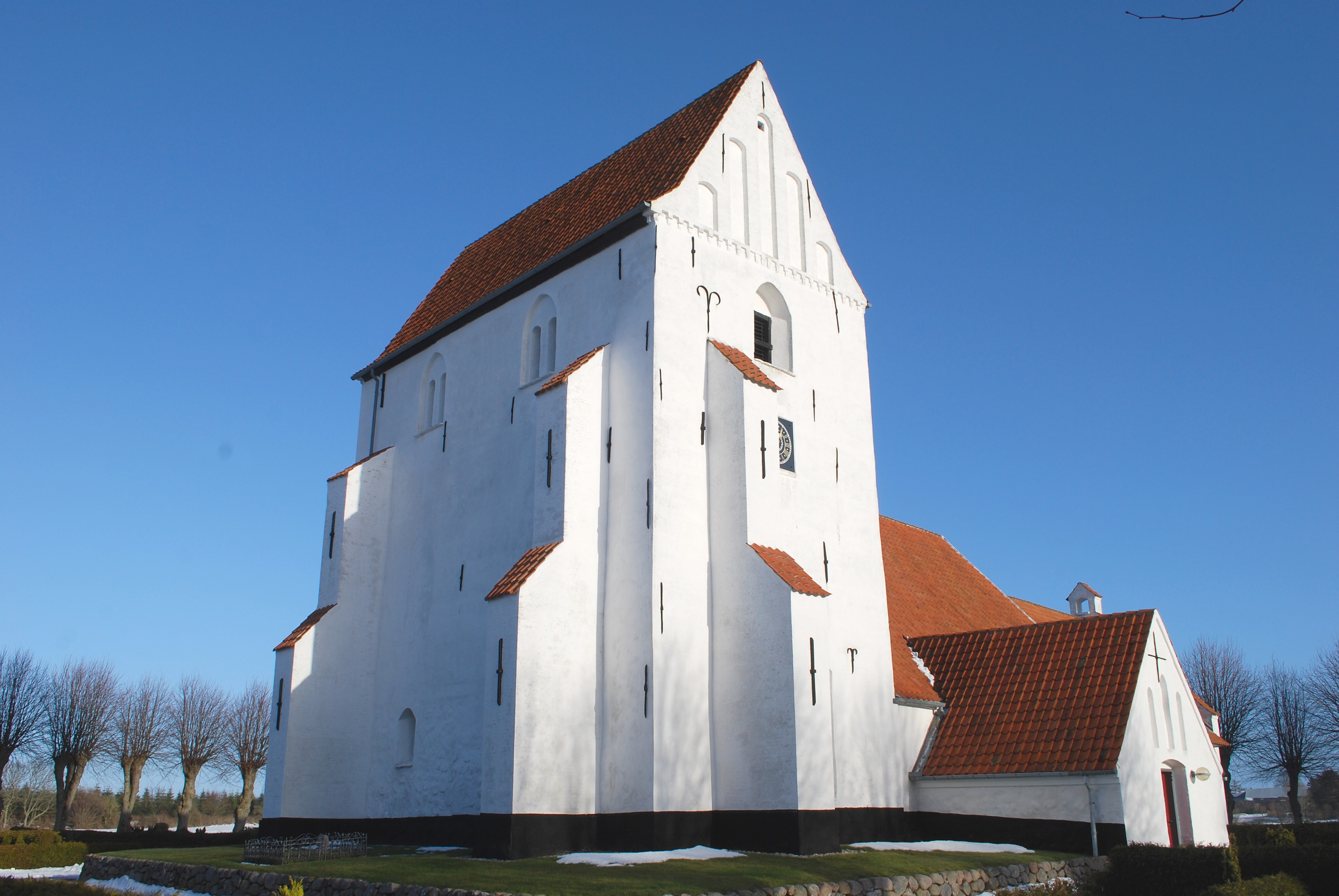 Church of Notmark, island of Als, Denmark